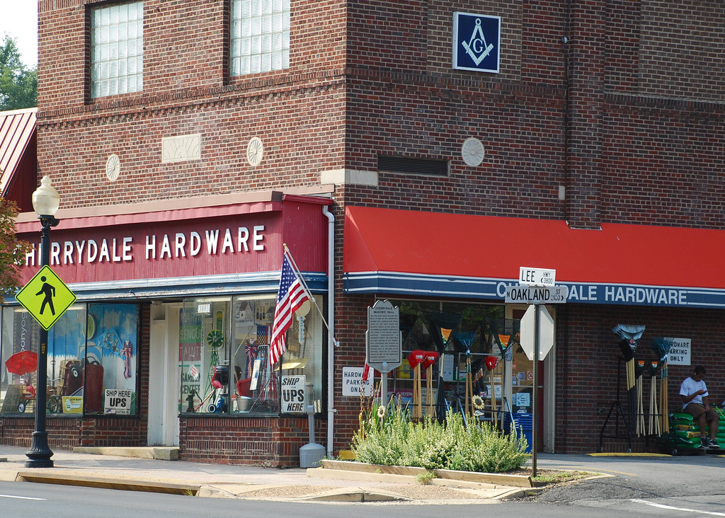 Cherrydale Historic District